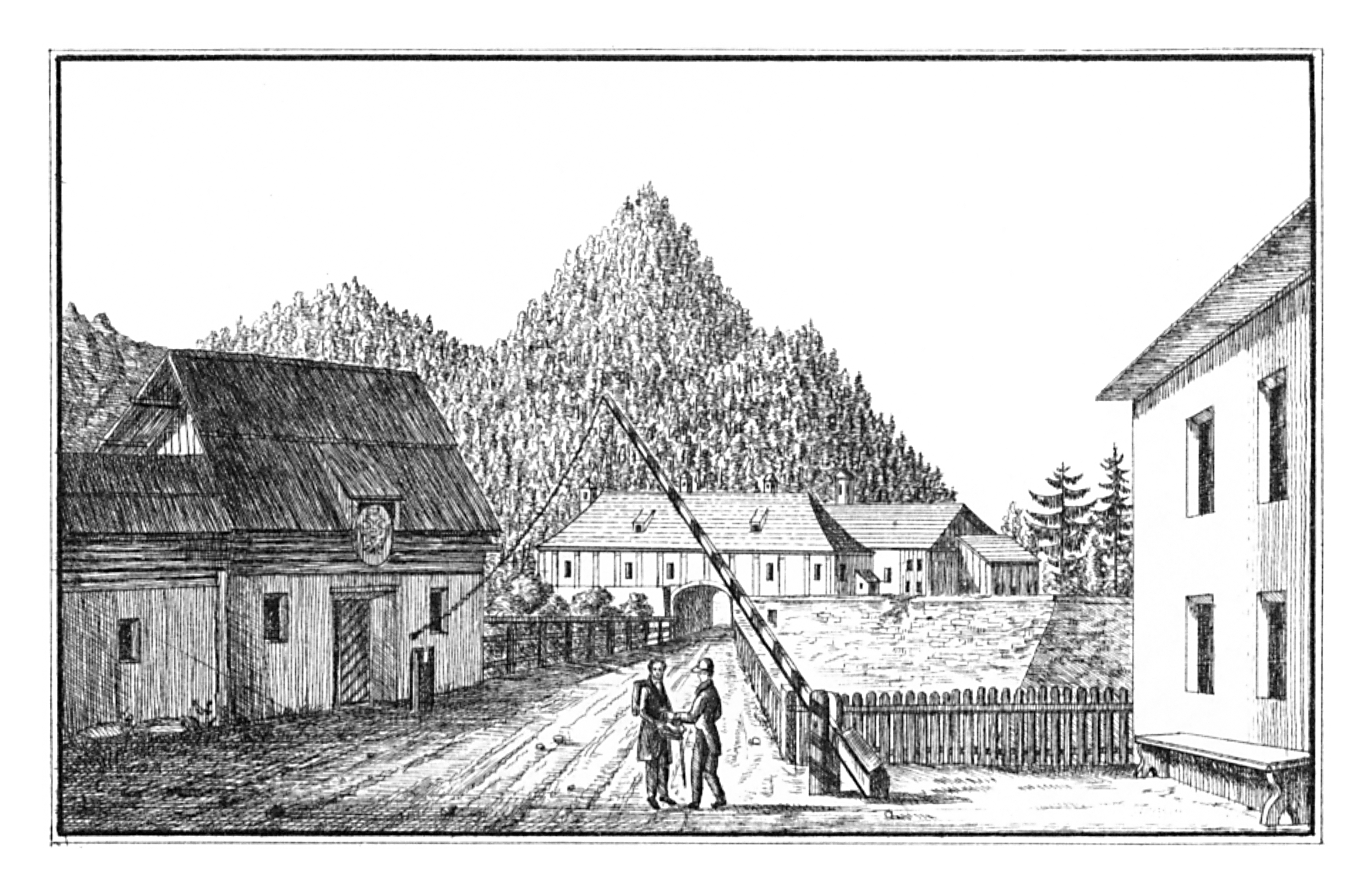 J. F. Kaiser - lithographirte Ansichten der Steyermärkischen Städte, Märkte und Schlösser, Graz 1824-1833 Joseph Franz Kaiser (1786–1859) Alternative names J. F. KaiserDescriptionAustrian printer and editorDate of birth/death 11 March 1786 19 September 1859Location of birth/death Graz (Styria) GrazAuthority control : Q1499963 VIAF: 30629353 ISNI: 0000 0000 3083 0153 LCCN: n87141671 GND: 129880159 NLP: A24960305 WorldCat creator QS:P170,Q1499963 . Scanprojekt Community Projektbudget 2012 This scan or this PDF-file was created within the GLAM-project Bookscanning, supported by Wikimedia Germany and Wikimedia Austria as a part of the community-project to capture books, documents and pictures which are not eligible to copyright or for which the copyright has expired. This document describes or depicts an object which is located in Austria today. Send requests for uncompressed scans to Hubertl. This work is in the public domain in its country of origin and other countries and areas where the copyright term is the author's life plus 100 years or less. You must also include a United States public domain tag to indicate why this work is in the public domain in the United States. This file has been identified as being free of known restrictions under copyright law, including all related and neighboring rights.